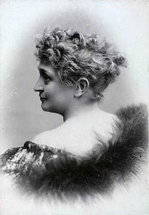 Laurenze Helmine Oda Nielsen, née Larssen (1851-1936), Danish actress